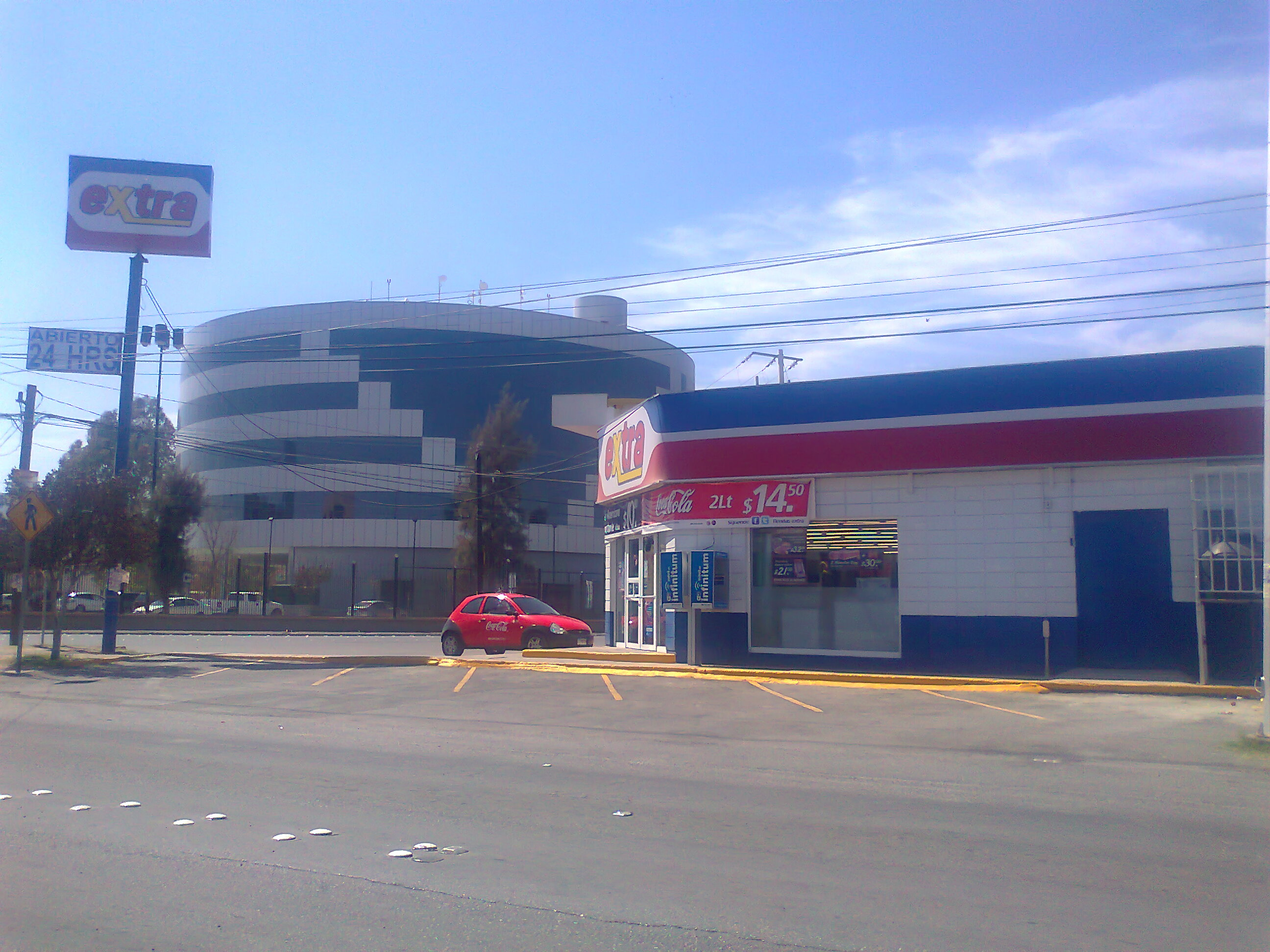 Extra store in Torreon, Mexico.